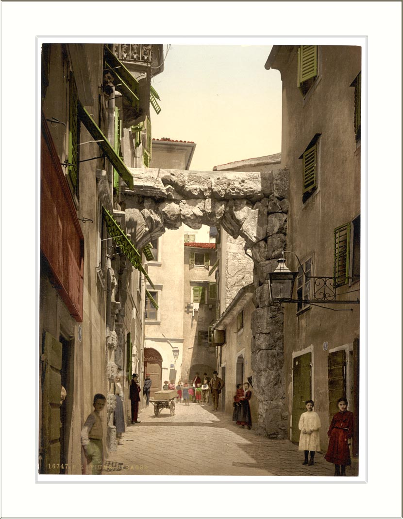 Fiume a street Croatia Austro-Hungary